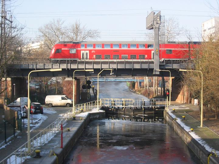 Landwehrkanal in Berlin-Tiergarten. “Unterschleuse“ (lock) Tiergarten and train on the bridge.